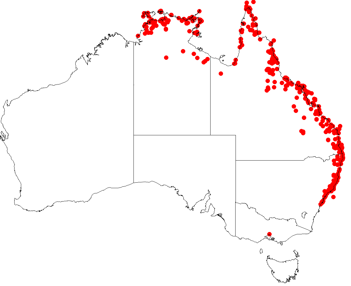 Cupaniopsis anacarcoides occurrence data downloaded from Australasian Virtual Herbarium on July 15, 2018.